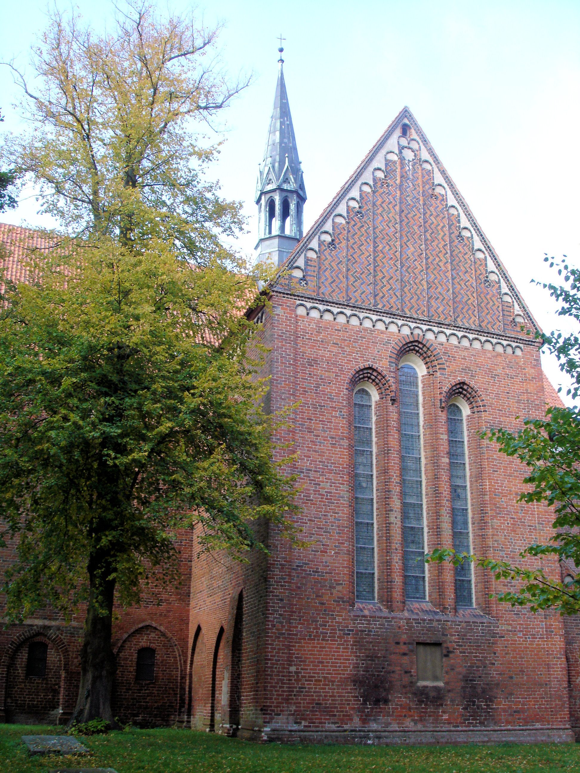 eastern gabel of the minster in Neukloster, Mecklenburg, Germany